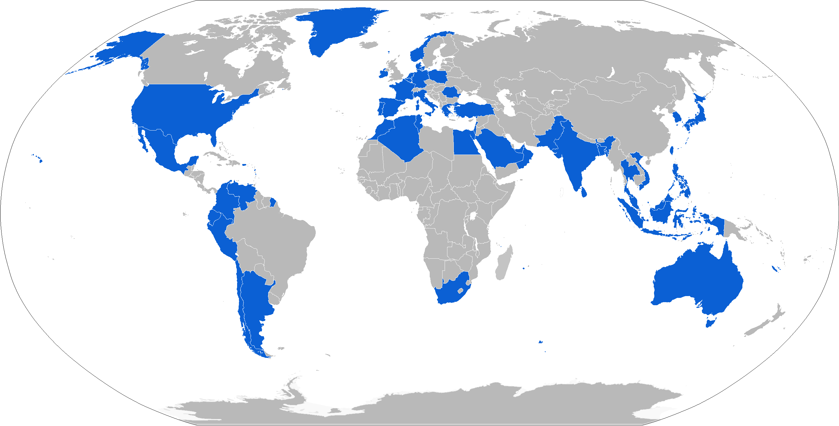 OtoMelara 76mm operators